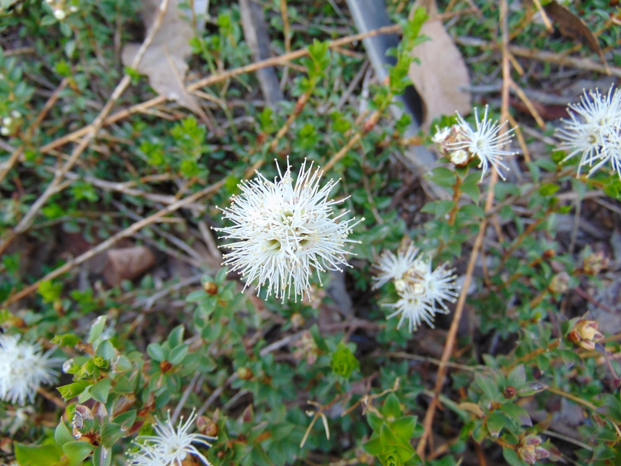 Kunzea pomifera, Australian National Botanic GardensPlease respect author's moral rights by not changing this description or the image title.